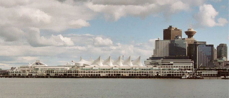 Letterboxed version of Image:CanadaPlace.jpg